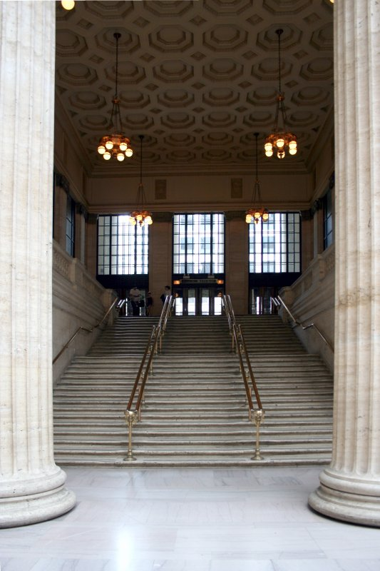 One of the two grand staircases at Chicago's Union Station